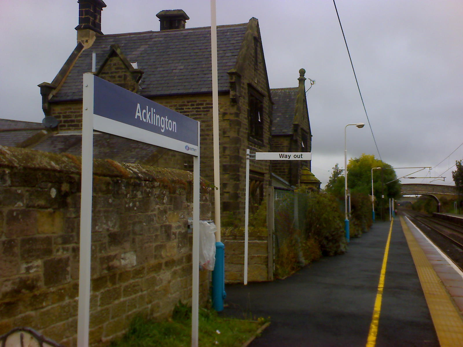 Acklington Railway Station, October 2007